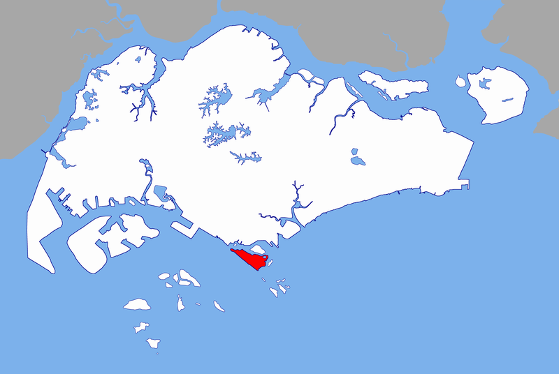 Created by Vsion